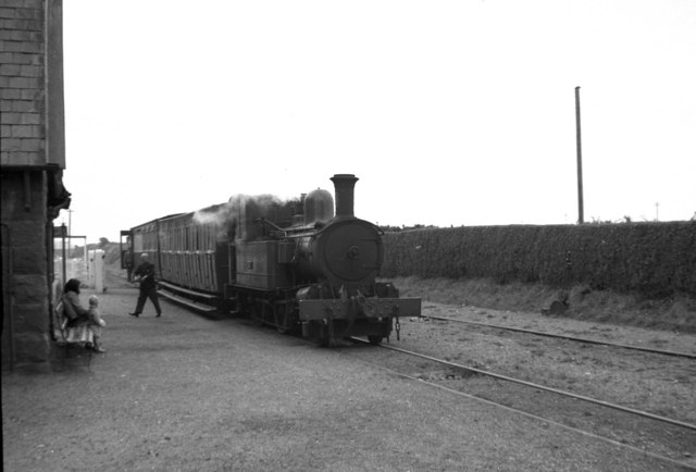 Train at Kirk Michael station, Isle of Man: This photograph shows a two-coach train headed by a 2-4-0T locomotive, at the former Kirk Michael station. The train started from Douglas and is heading for Ramsey.